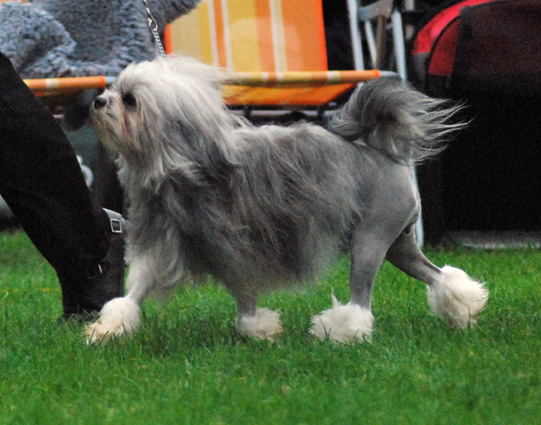 Löwchen